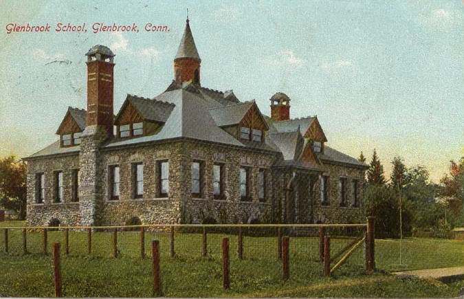 Postcard depicting the former Glenbrook School in the Glenbrook section of Stamford. Store Web page states: "view of Glenbrook School in Glenbrook, Connecticut. Mailed in 1911. Publ. by Hugh C. Leighton Co. Printed in Germany."